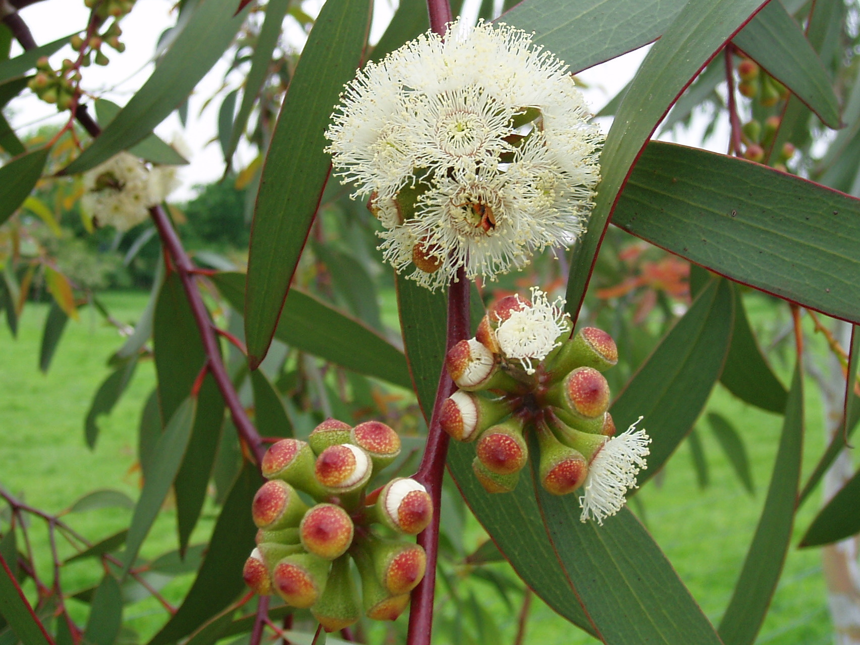 Eucalyptus pauciflora flowering near Corley, England